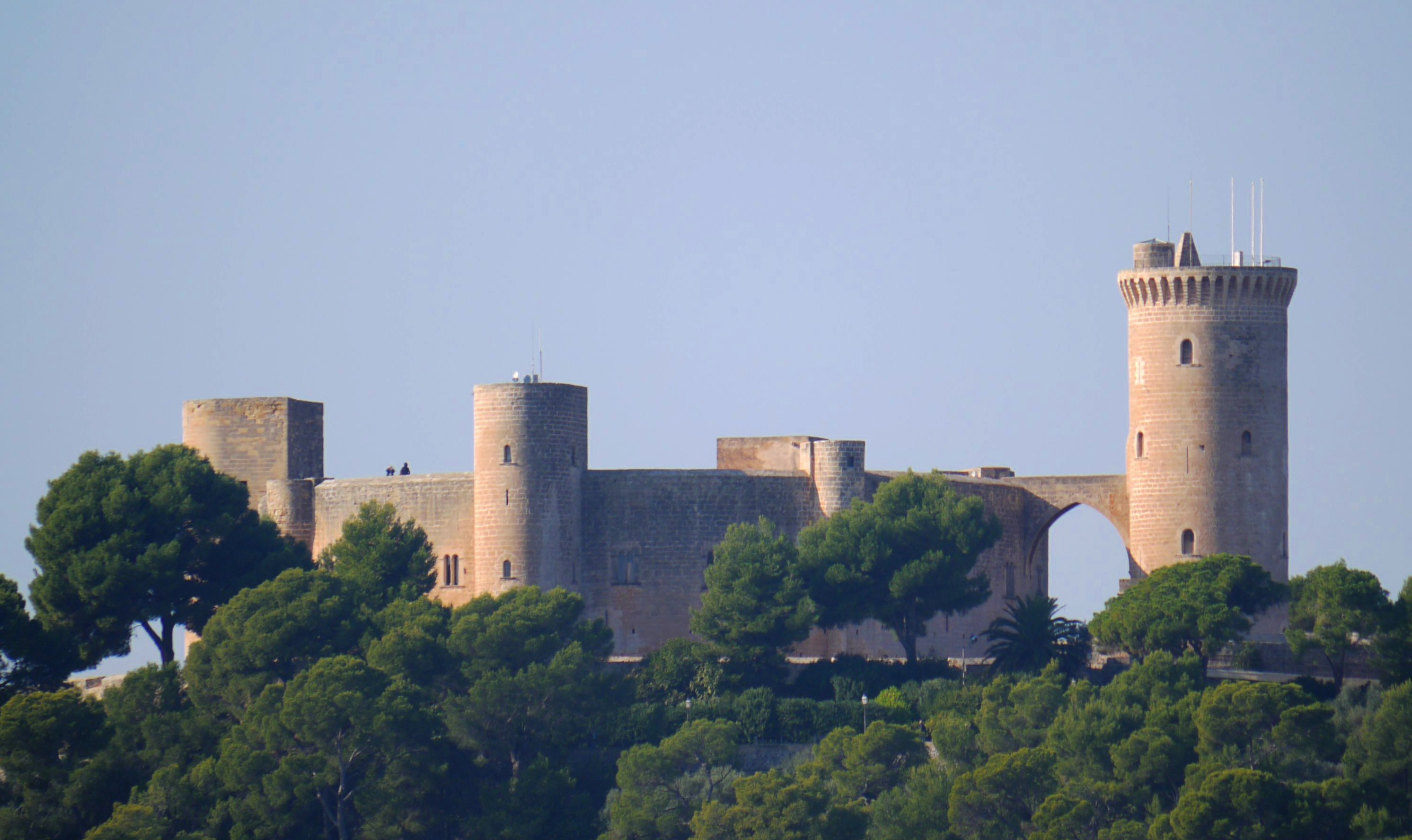 Bellver Castle, view from Museum of Modern and Contemporary Art „Es Baluard“ in Palma